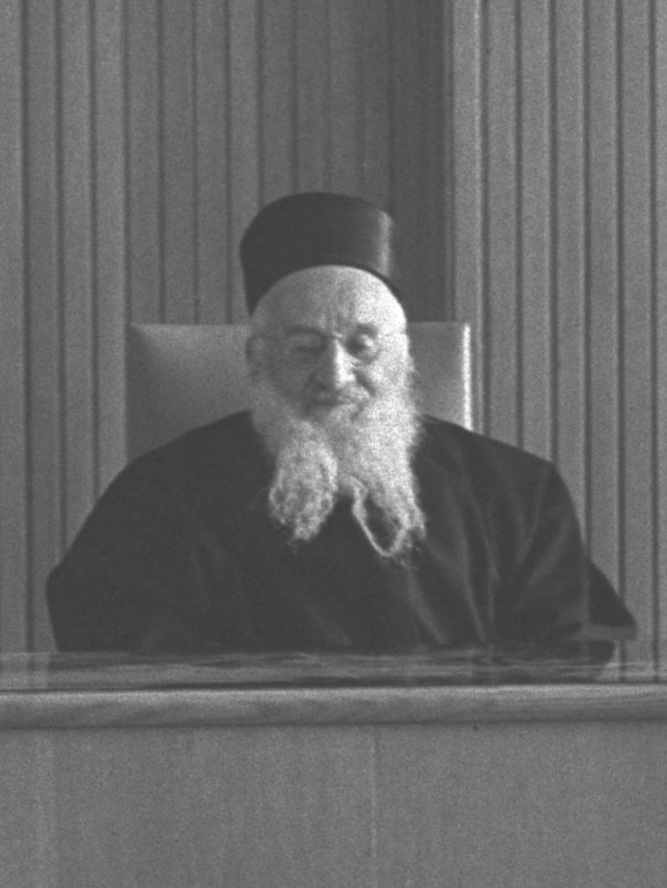 Rabbi Ovadia Hedaya at the Israel Rabbinate High Court of Appeals, Jerusalem 1959